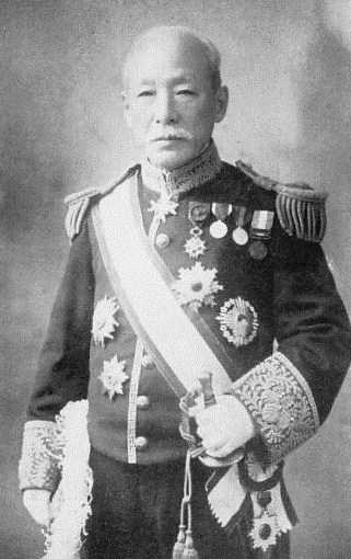 Shigeyoshi Matsuo